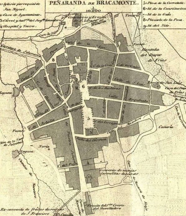 Map of Peñaranda de Bracamonte cropped from the 1867 province of Salamanca map by Francisco Coello